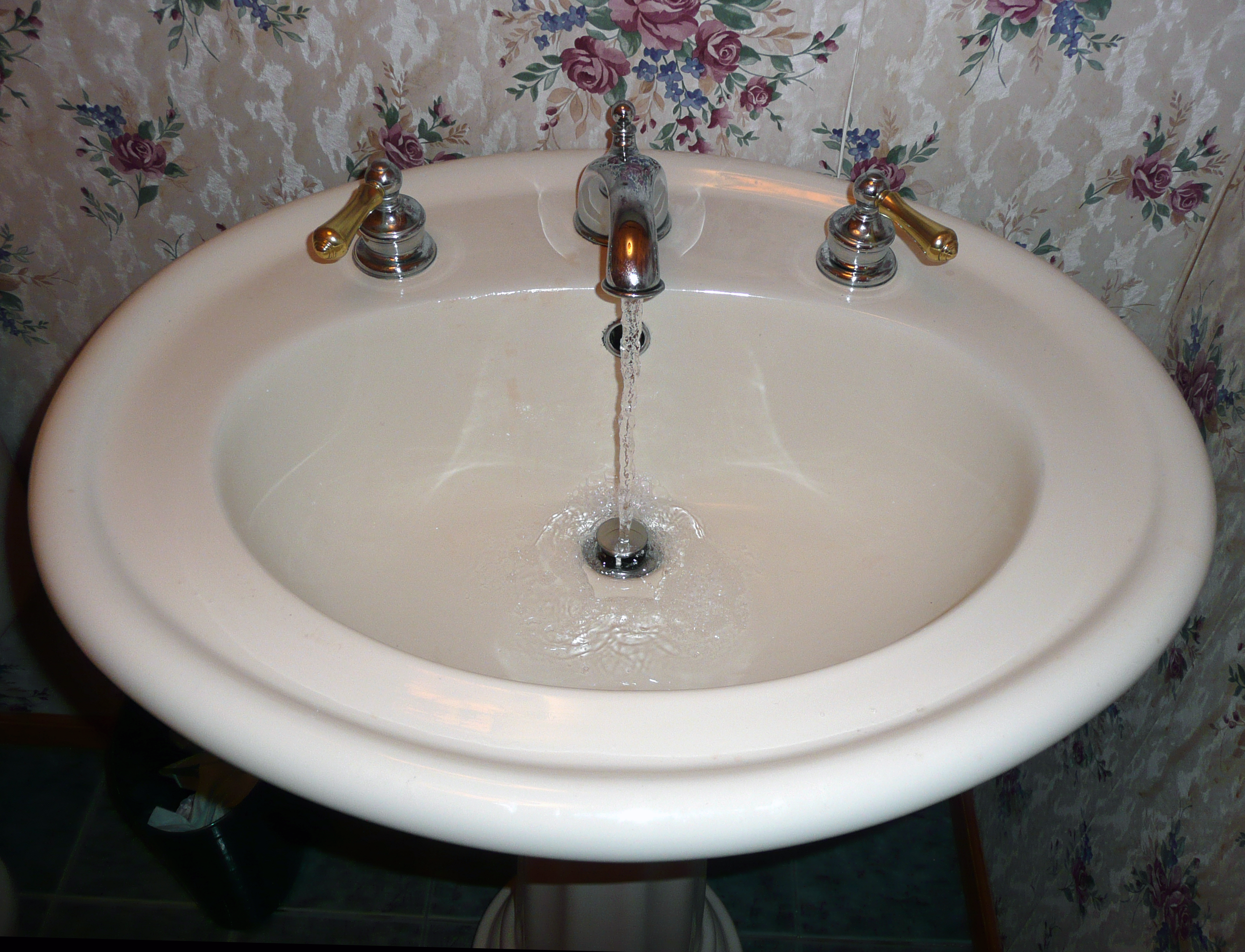 Generic bathroom sink